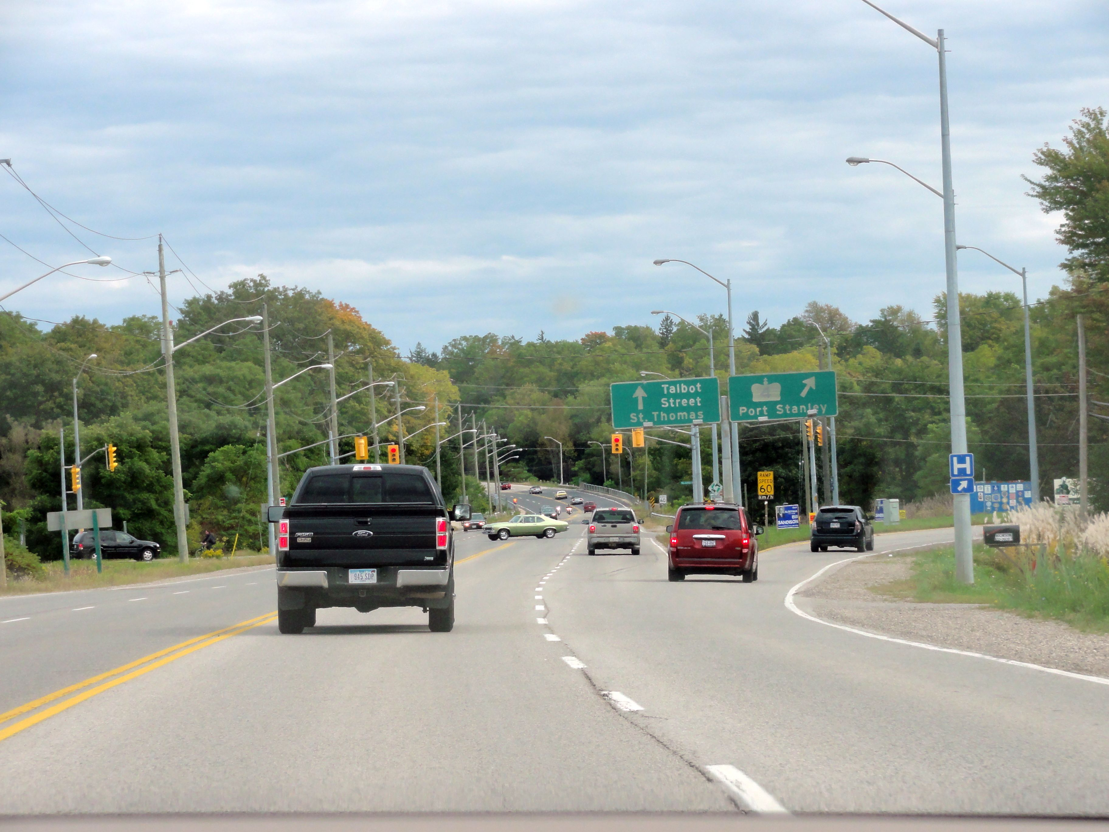 Highway 4 in Saint Thomas